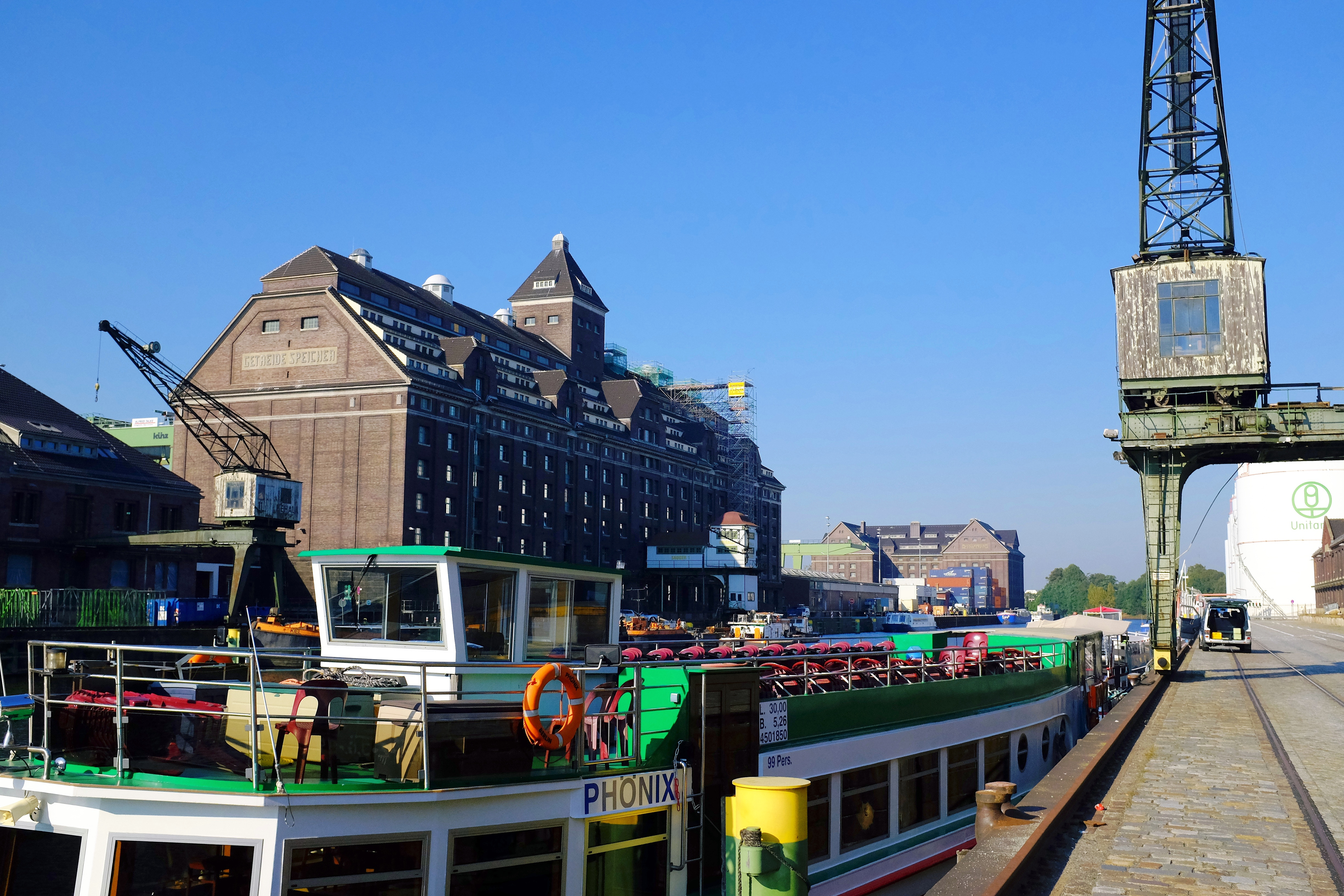 westhafen